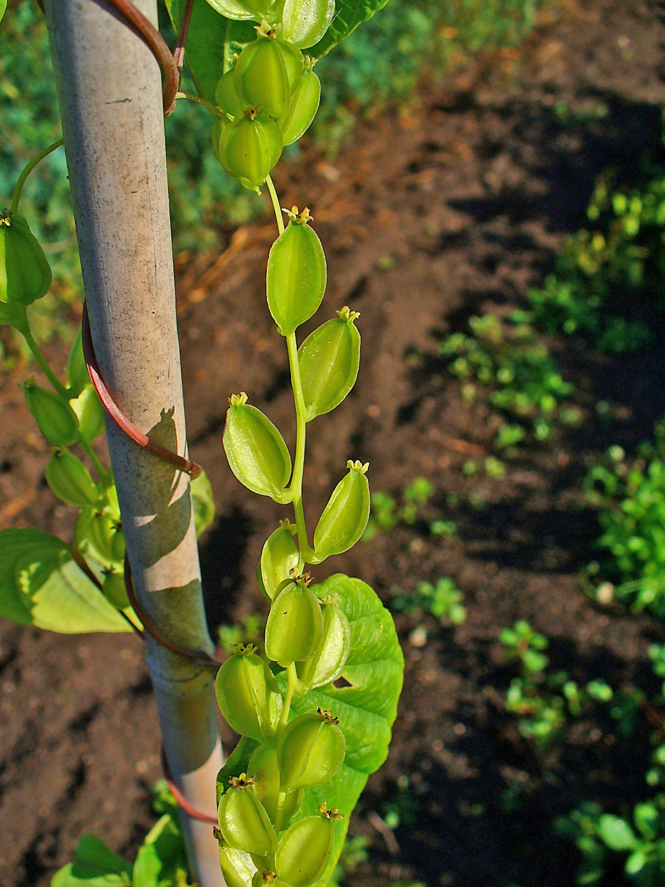 Dioscorea villosa, Wild Yam, fruits. Stutensee-Staffort, Germany.